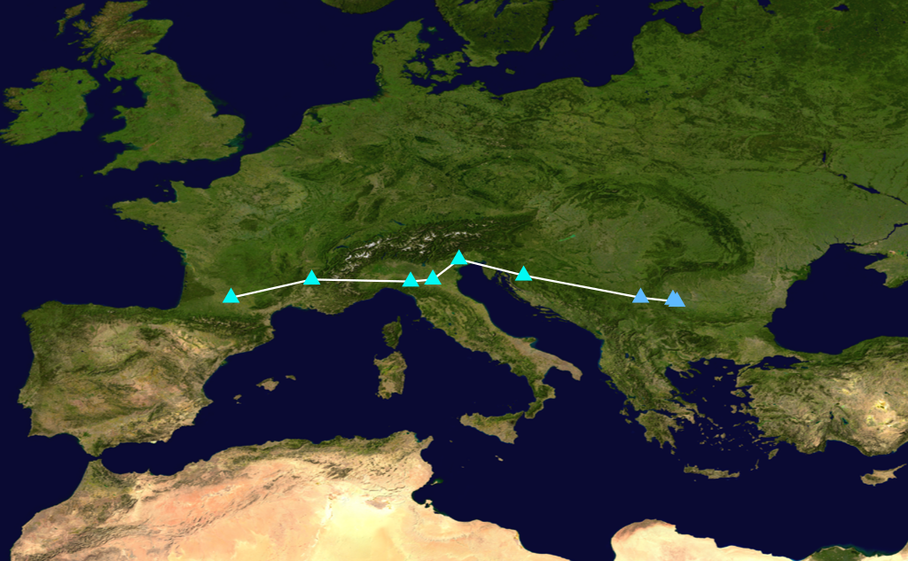 Track map of Storm Karine of the 2019-20 European windstorm season. The points show the location of the storm at 6-hour intervals. The colour represents the storm's maximum sustained wind speeds as classified in the Saffir–Simpson scale (see below), and the shape of the data points represent the nature of the storm, according to the legend below. Saffir–Simpson scale Tropical depression≤38 mph≤62 km/h Category 3111–129 mph178–208 km/h Tropical storm39–73 mph63–118 km/h Category 4130–156 mph209–251 km/h Category 174–95 mph119–153 km/h Category 5≥157 mph≥252 km/h Category 296–110 mph154–177 km/h Unknown Storm type Tropical cyclone Subtropical cyclone Extratropical cyclone / Remnant low / Tropical disturbance / Monsoon depression